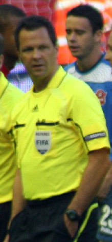 Peter Sippel before Europa League qualifying match Liverpool FC vs Rabotnicki at Anfield.